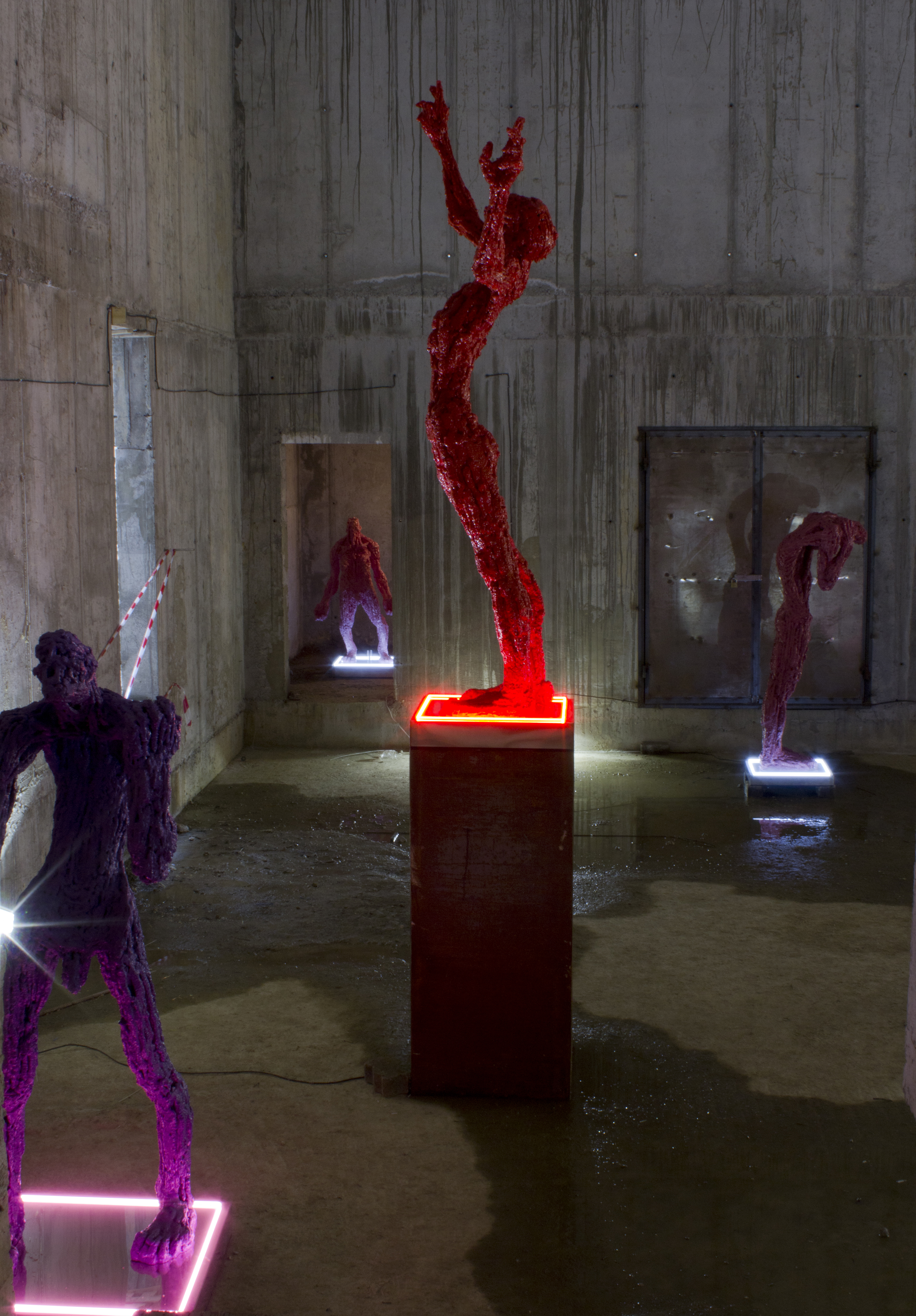 "the last Burghers of Calais" exhibition view